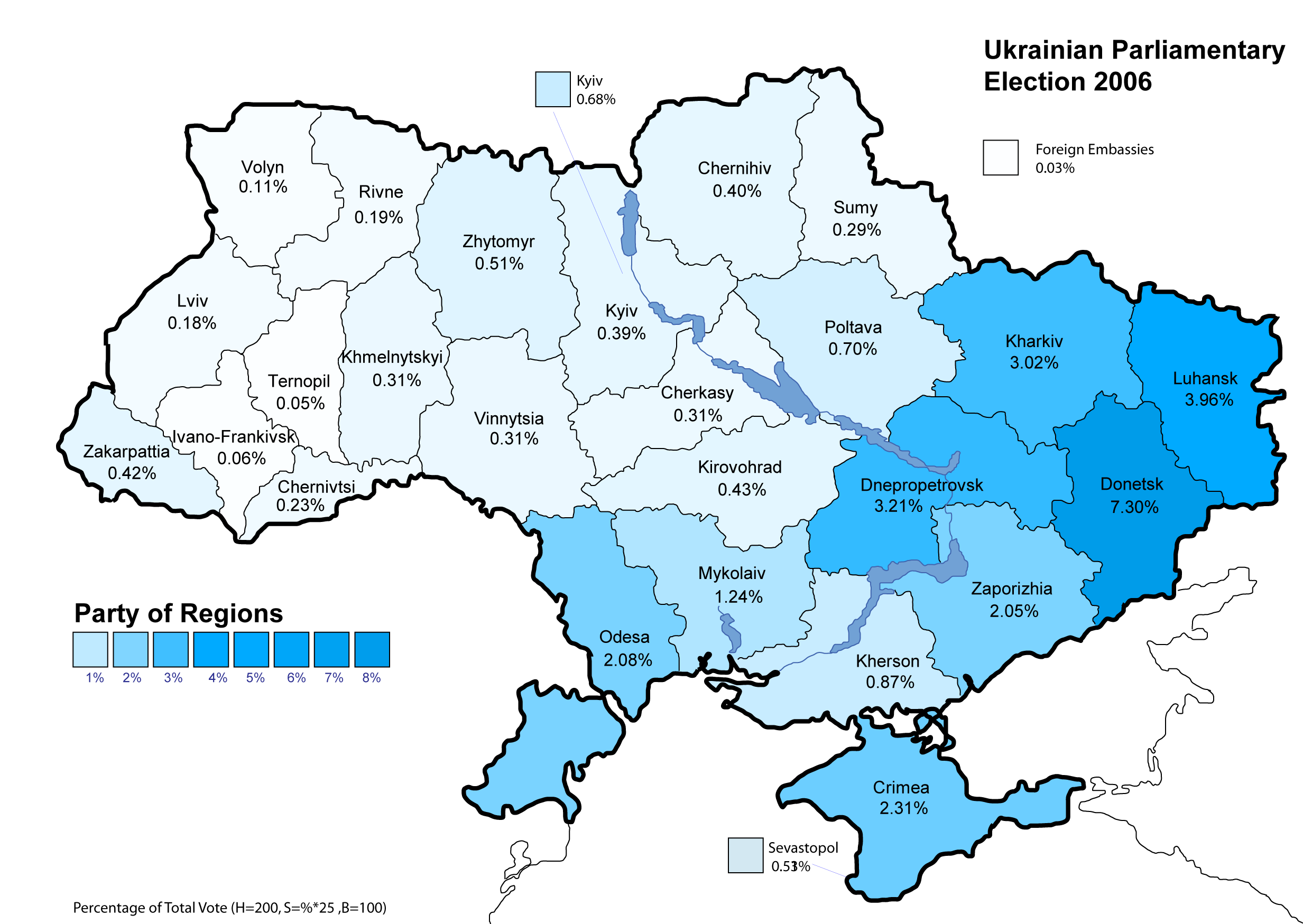 Ukrainian Parliamentary Election 2006 Party of Regions (verbose) percentage of total national vote (H=200, C=%*25, B=100)